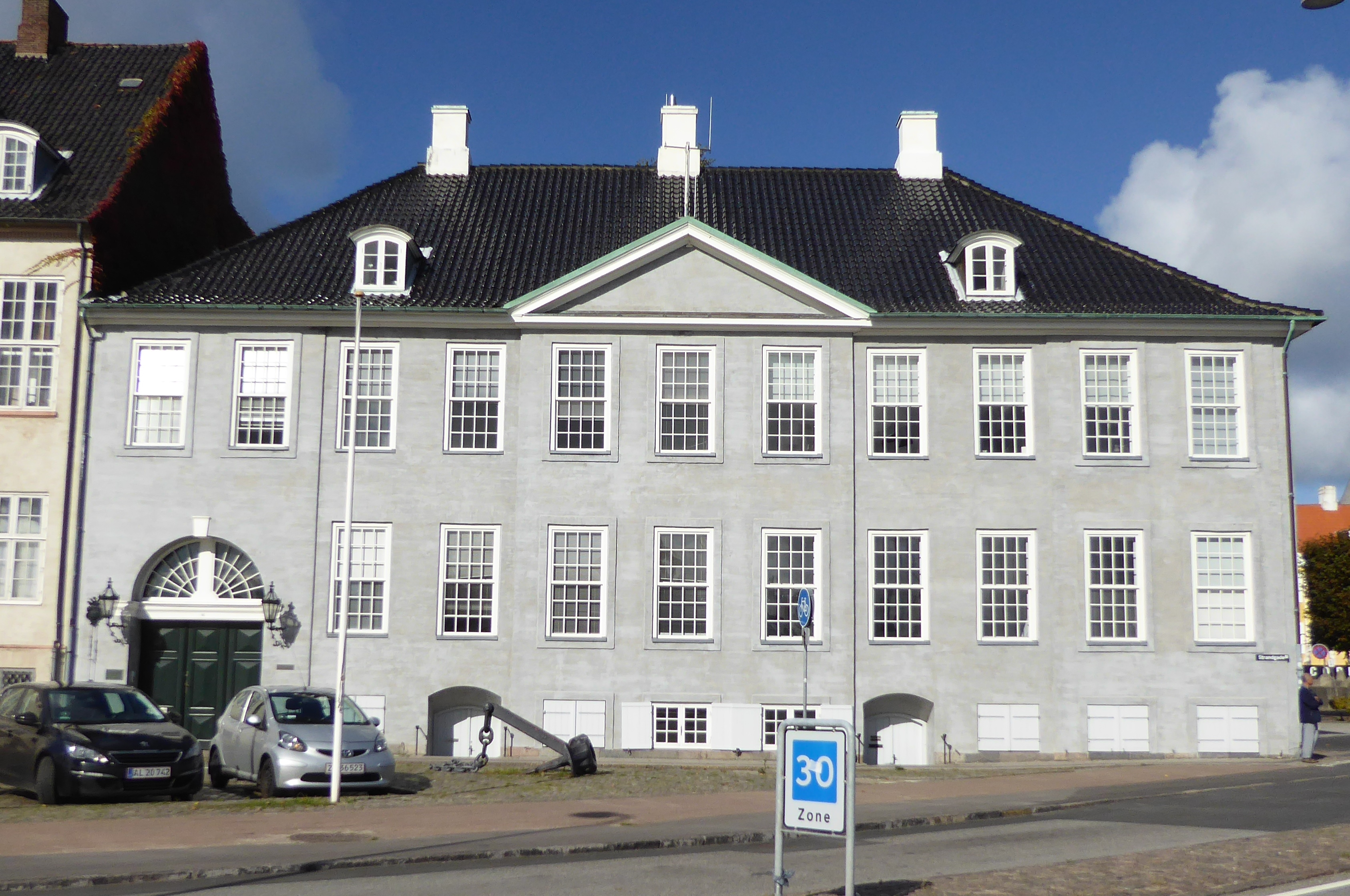 Stephen Hansens Palæ at Strandgade 95 in Helsingør, Denmark